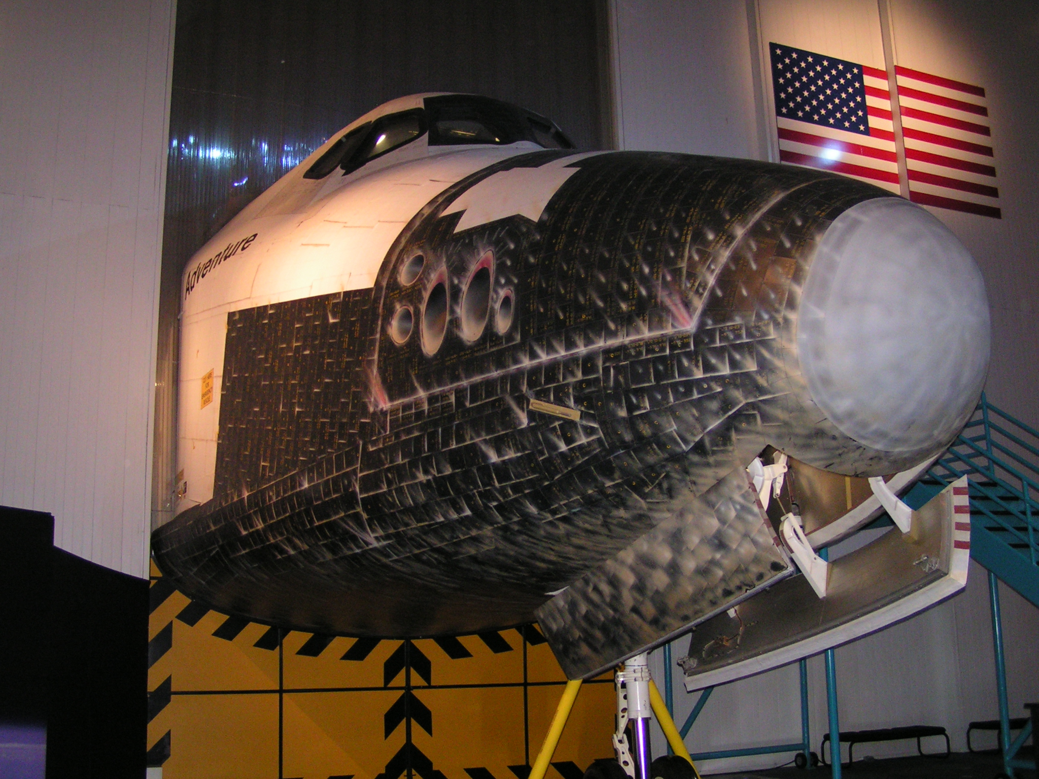 NASA's Space Orbital "Adventure" Mock-up Craft at Johnson Space Center, Houston, TX